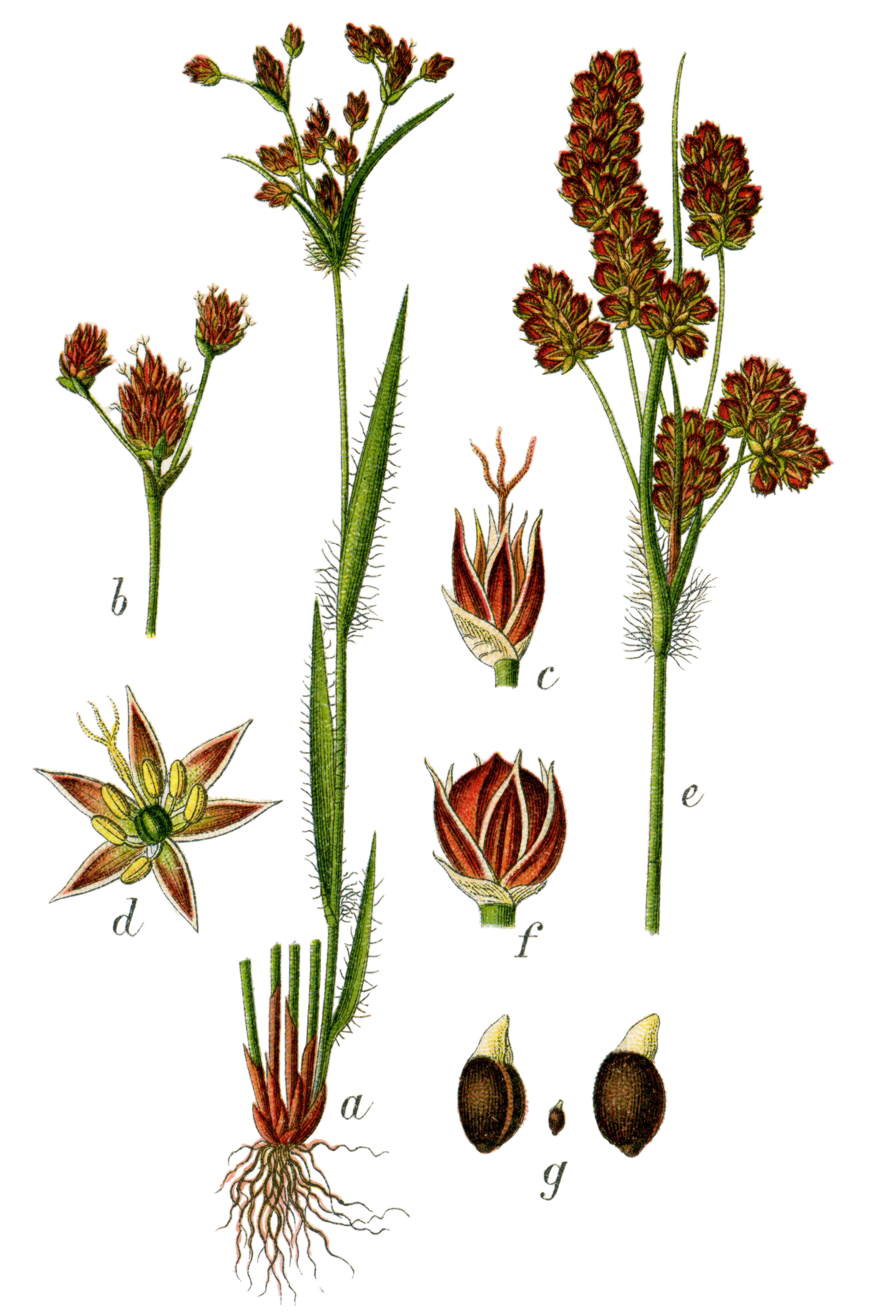 Luzula multiflora (Ehrh.) Lej. Original Caption: Grosses Hasenbrot, Luzula multiflora